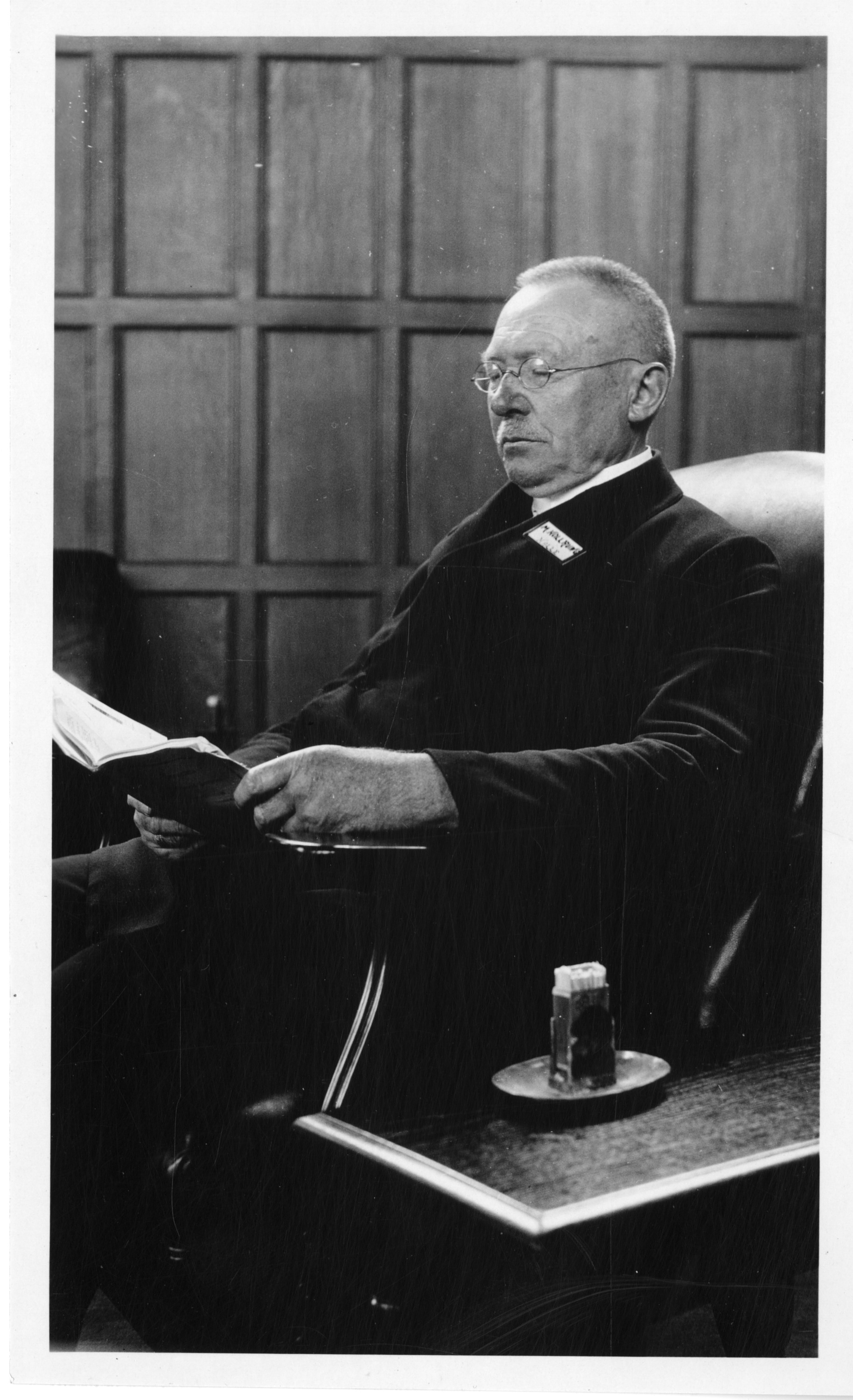 Max Hollrung (1858-1937), German plant pathologist, photographed August 1926 at the Fourth International Congress of Plant Sciences (now known as the International Botanical Congress), Cornell University.